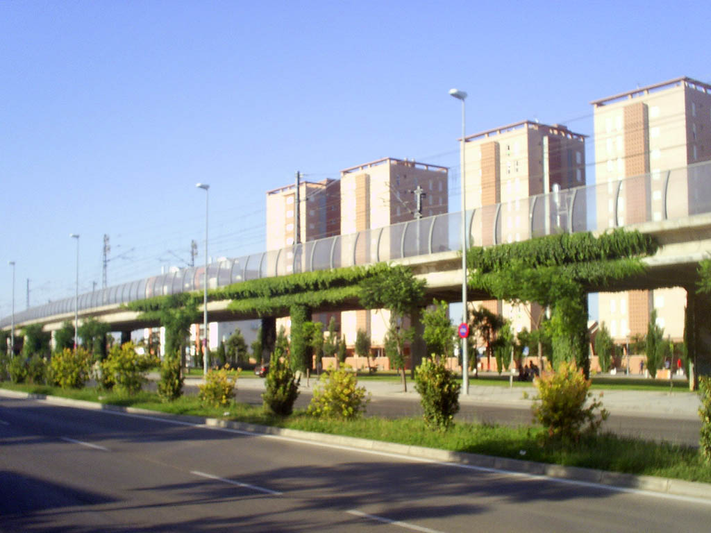 Jerez de la Frontera's Railway Elevation